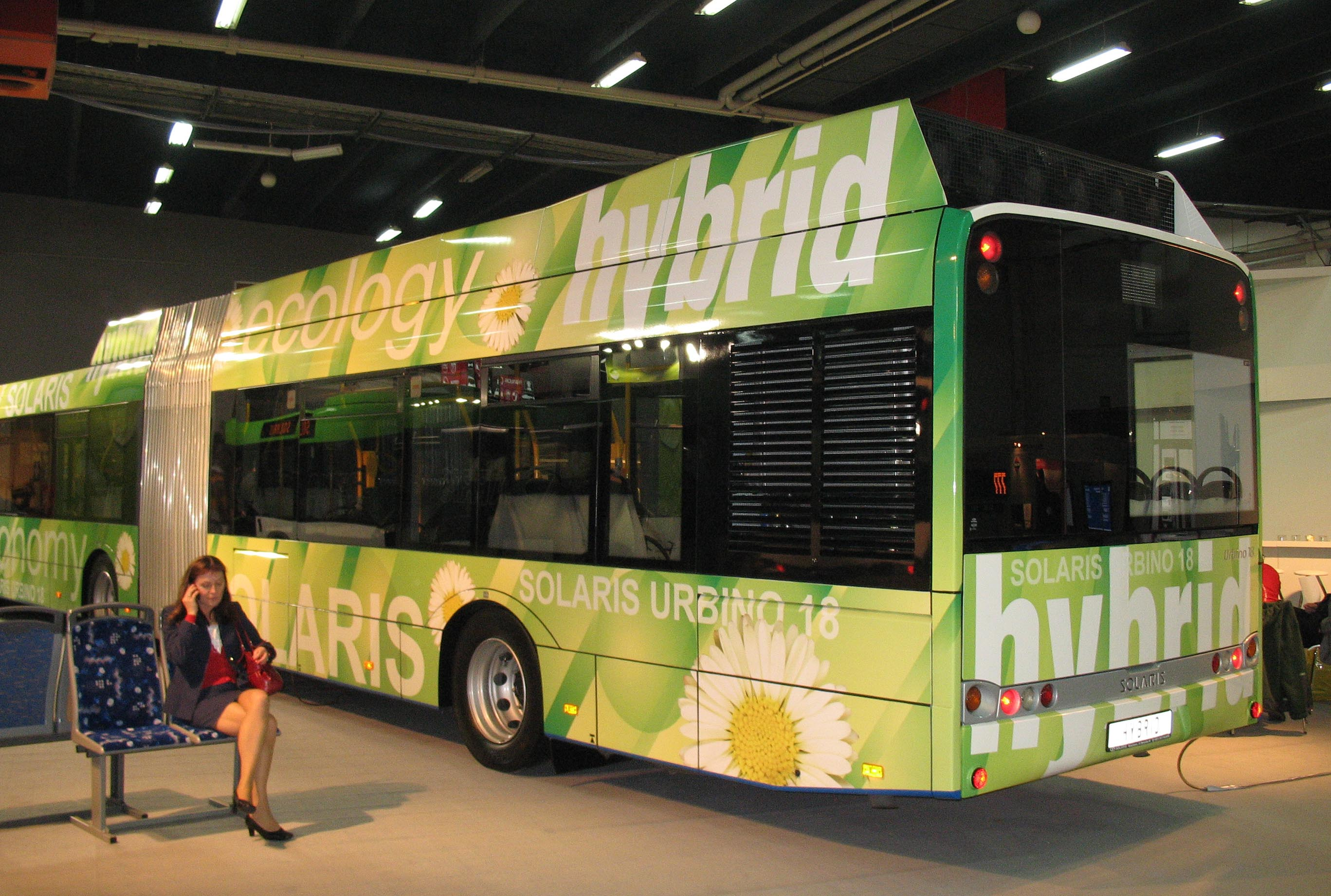 Solaris Urbino 18 Hybrid II (Allison) bus in Kielce, Poland. Built 2008. Transexpo 2008 exhibition. From 2009 - PKM Sosnowiec operator (#500).